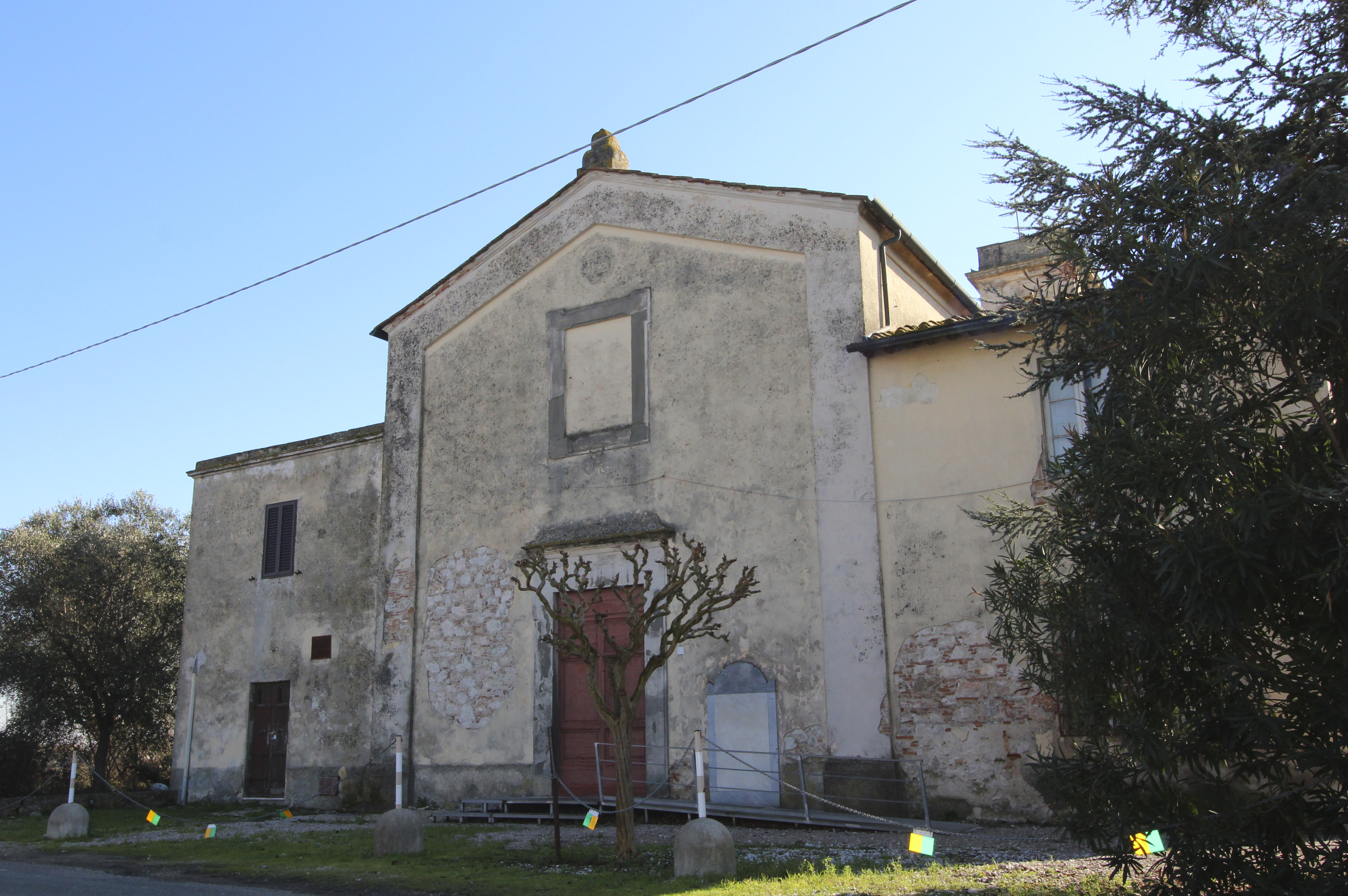 Church Santo Stefano, in Santo Stefano a Macerata (Chiesanuova), hamlet of Cascina, Province of Pisa, Tuscany, Italy